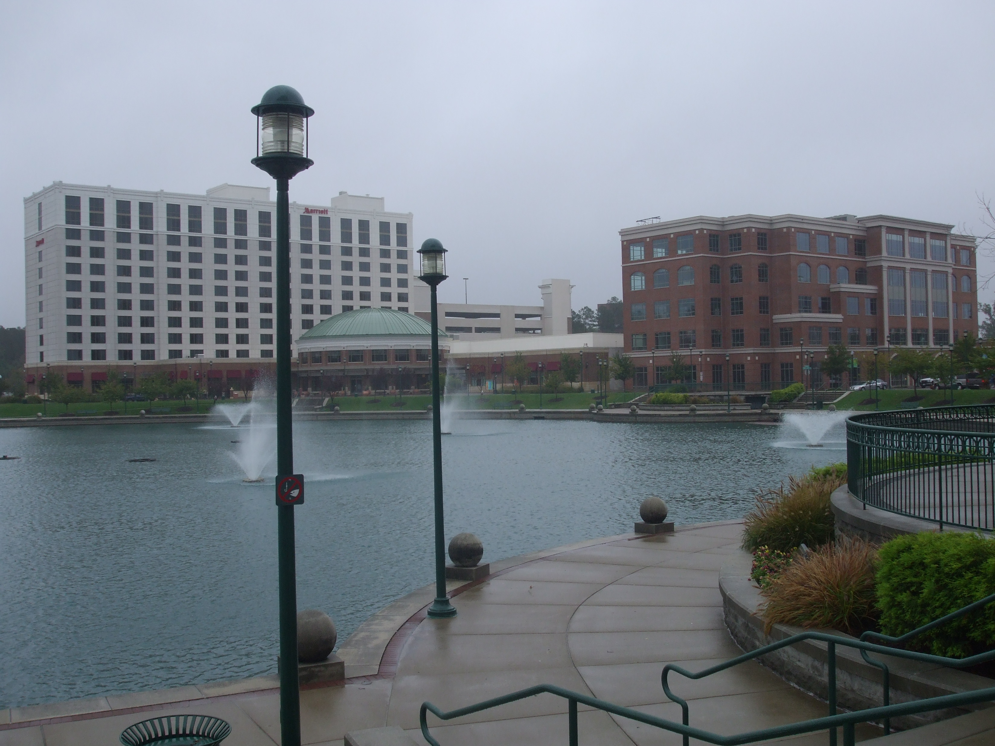 Oyster Point section of Newport News, VA